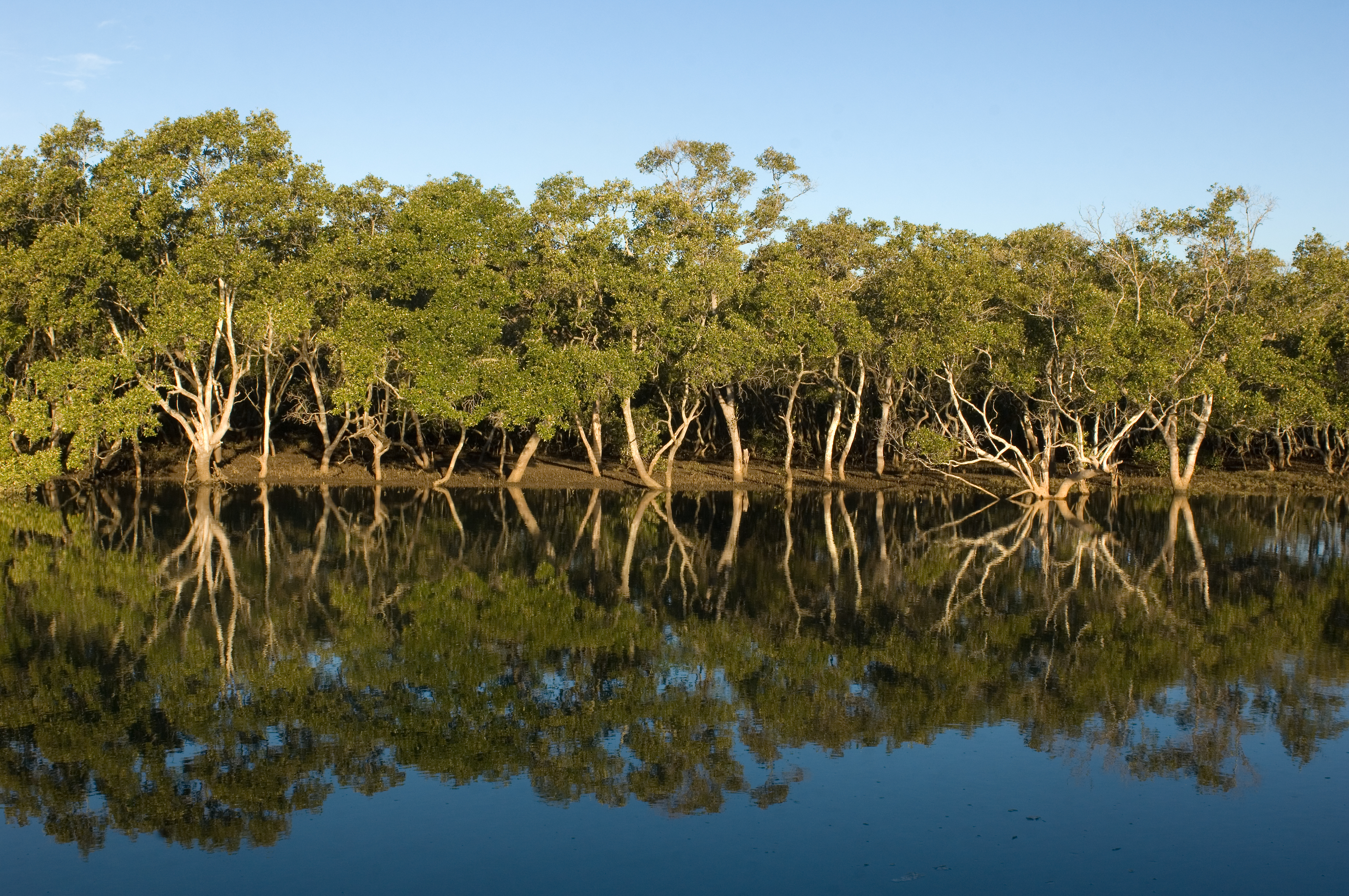 Grey Mangrove Scientific name:Avicennia marina